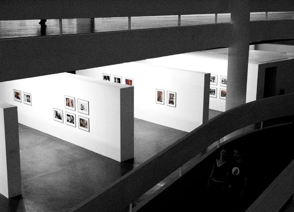 Niemeyer's Bienal Build, Ibirapuera Park - 27th São Paulo Art Biennial